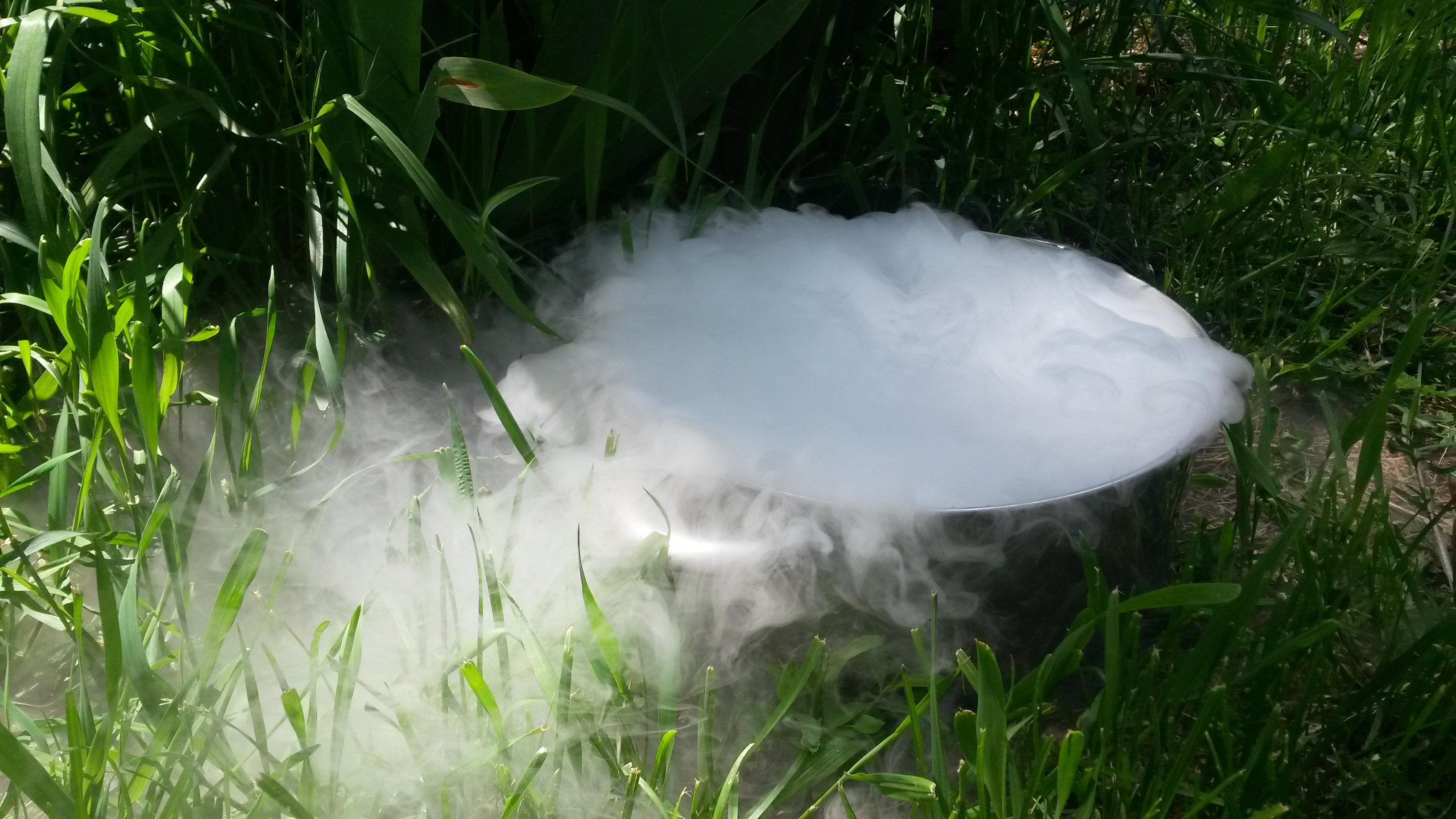 Dry ice in a pot of water, in the grass.